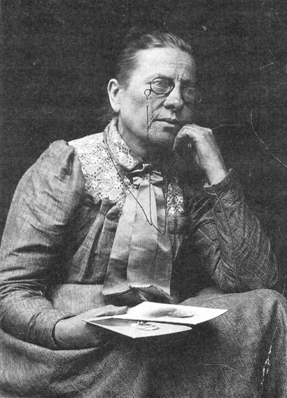 Photograph of the Finnish actor Aurora Aspegren (1844–1911).